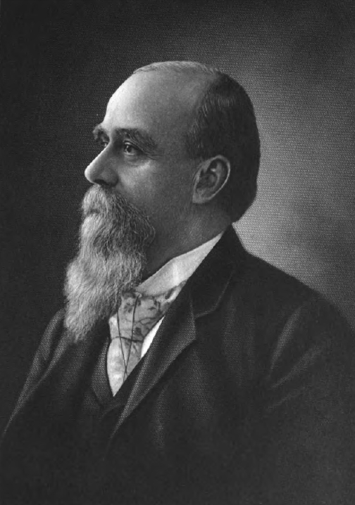 John Webster Dorrington (June 16, 1843 – September 16, 1916), owner/editor of the Arizona Sentinel (1881-1911) and five time member of the Arizona Territorial Legislature